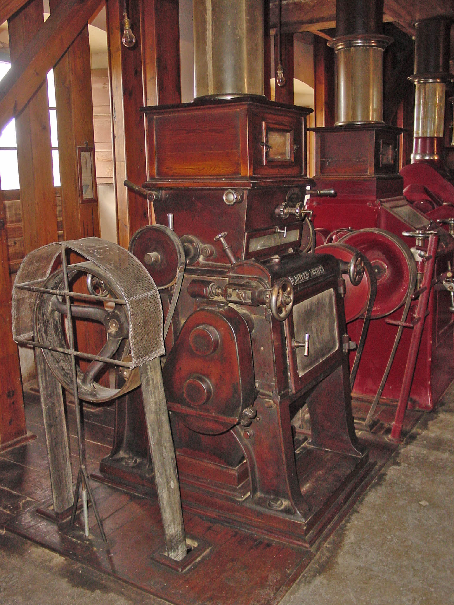 Factory of flour San Antonio, at the dock of the Channel of Castile in Medina de Rioseco, Valladolid Spain. A battery of gristmills.